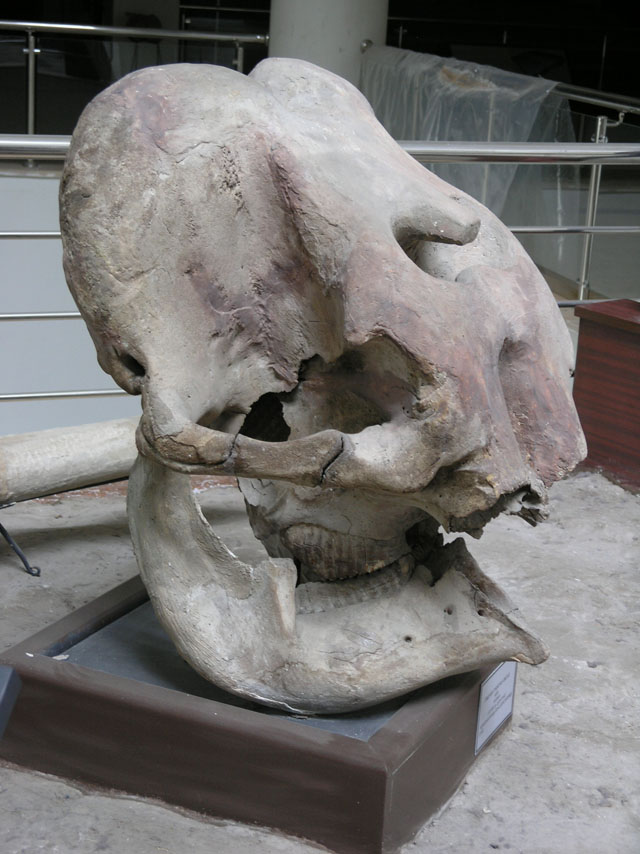 A partially reconstructed skull of Elephas maximus from Gavur Lake Swamp (MTA Natural History Museum, Ankara).